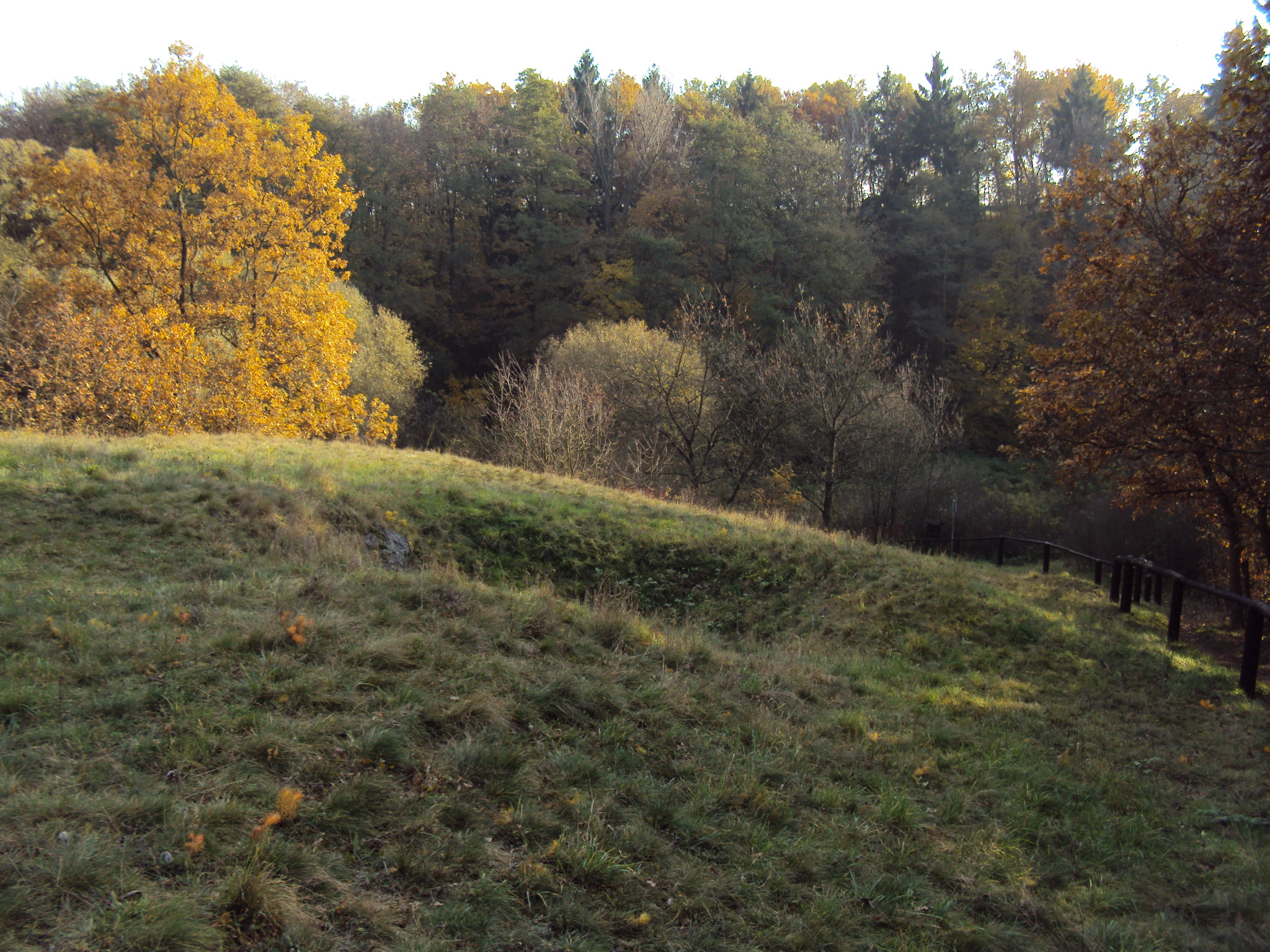 Natural protected site called Pitkovická stráň, near Prague